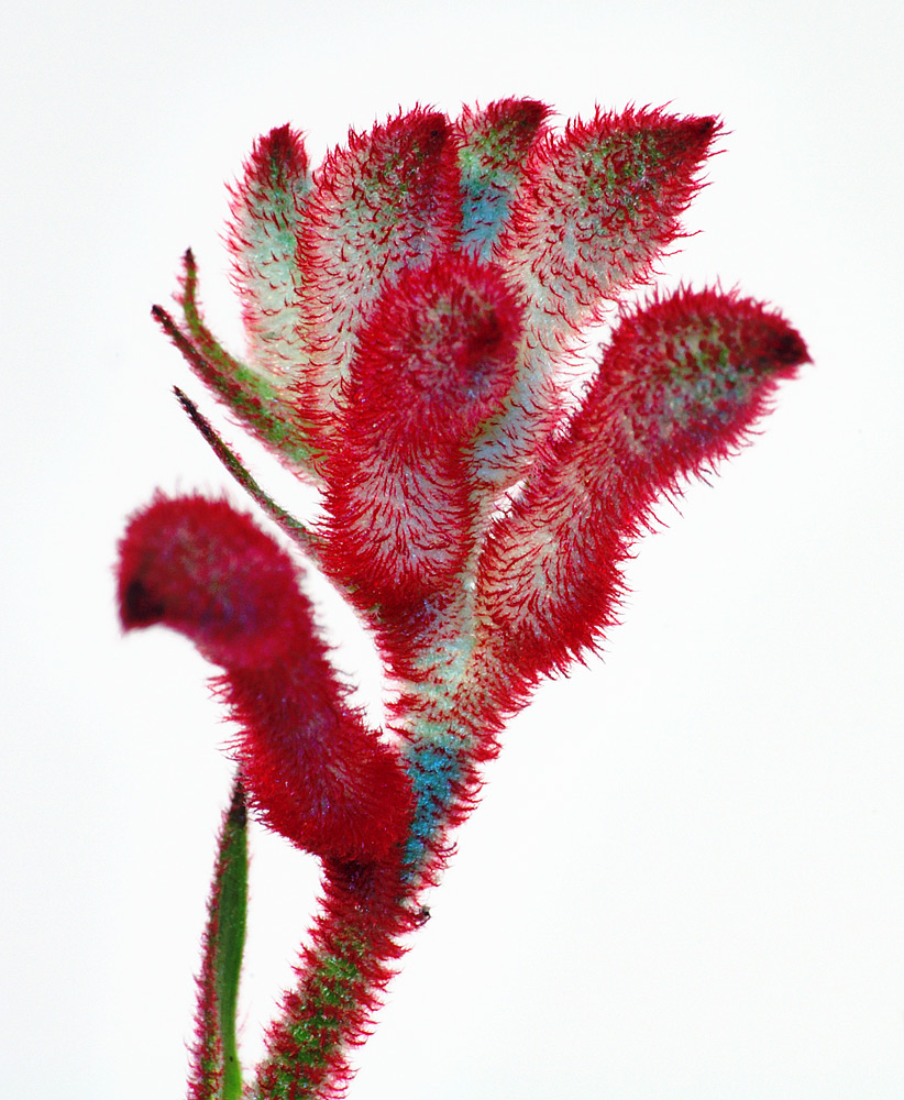 This image shows a close-up foto of an Anigozanthos flavidus.